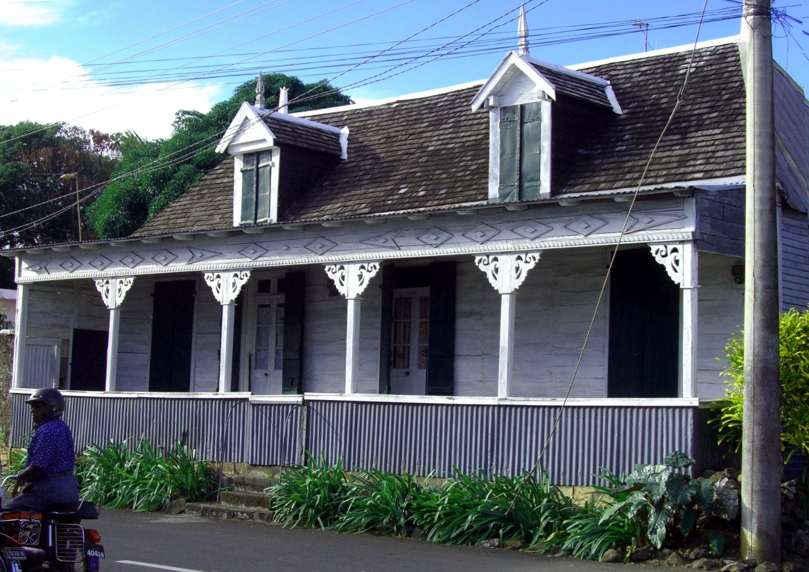 Mahébourg, old, colonial-style house dating back to the French occupation of the island